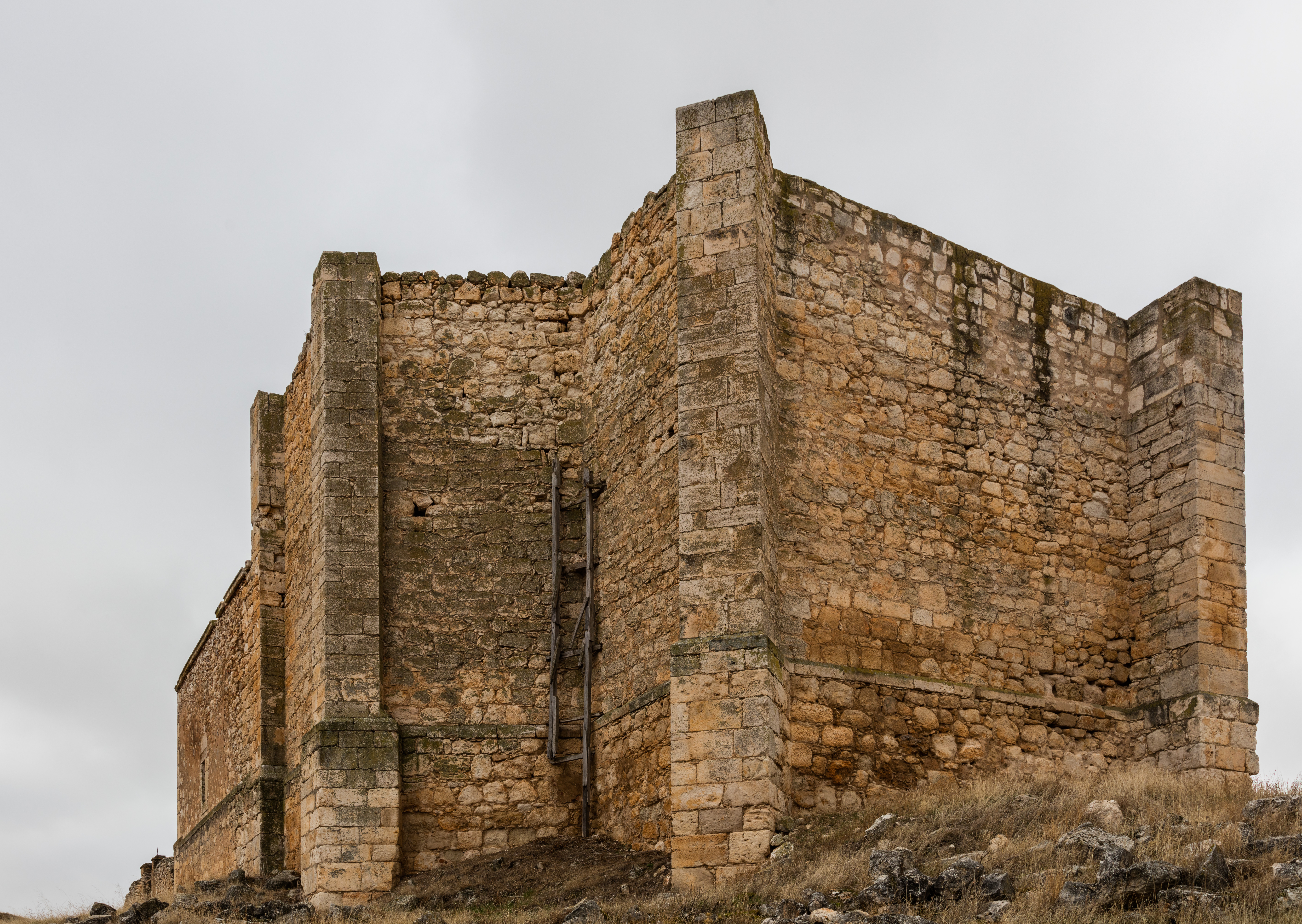 Remains of the church of Our Lady of the Assumption, Valdearenas, Guadalajara, Spain